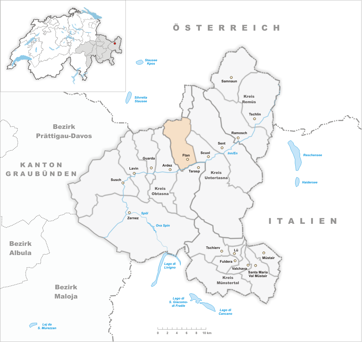 Municipality Ftan